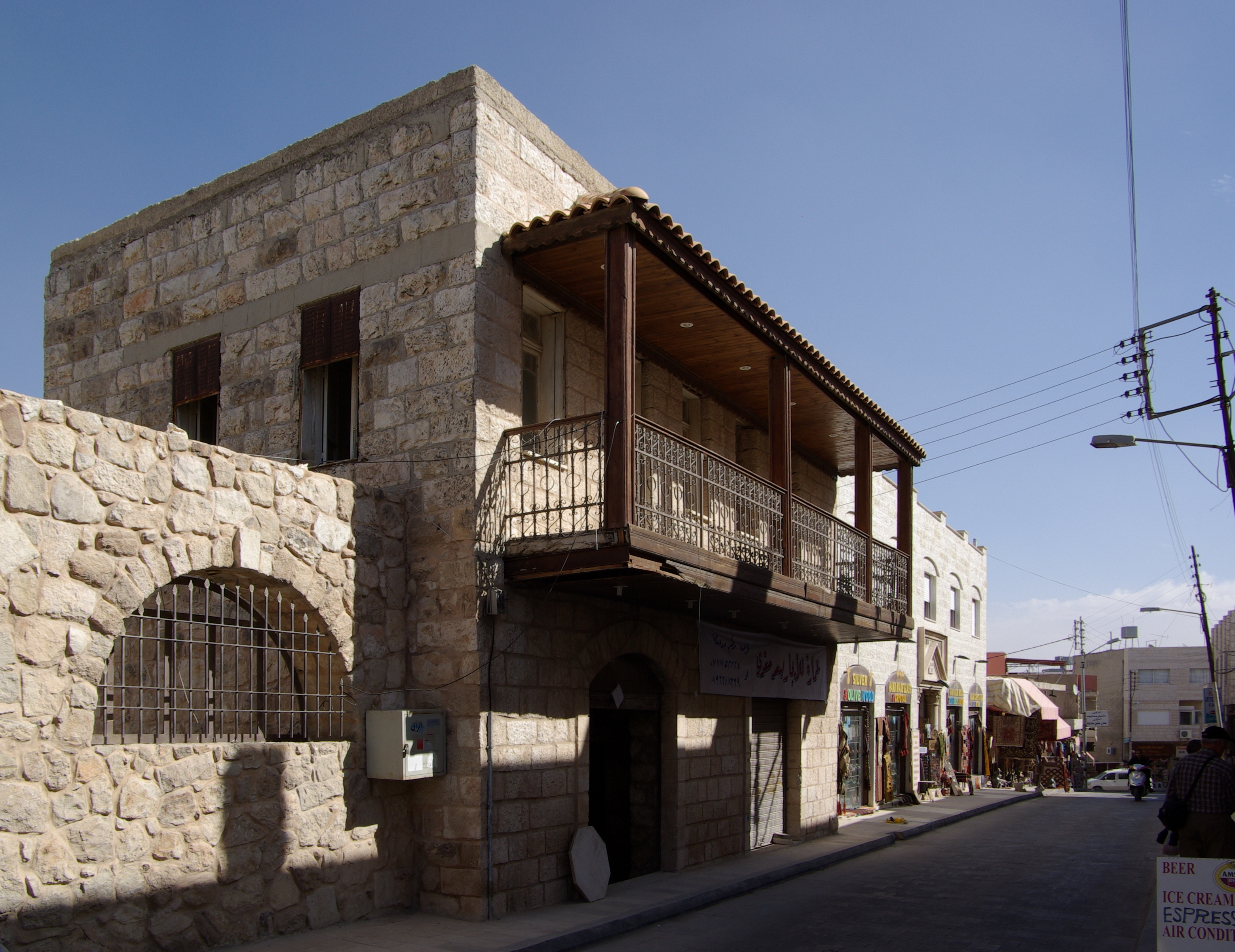 Madaba